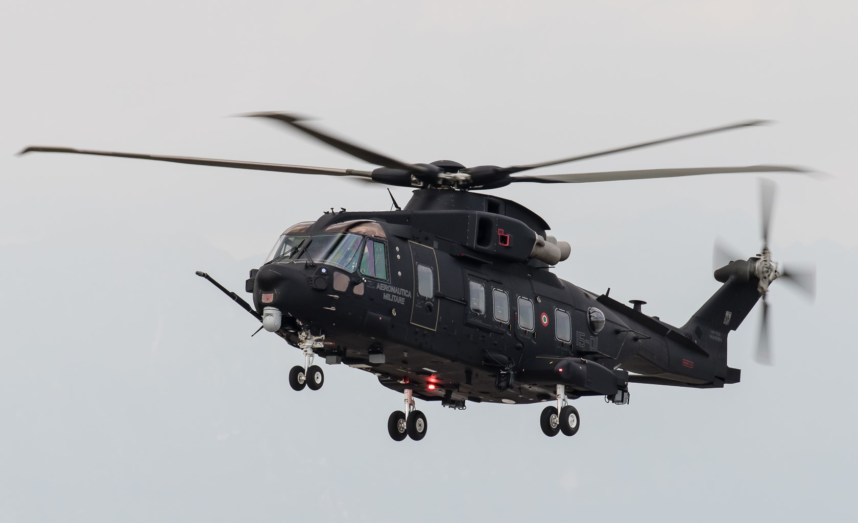 AgustaWestland HH-101A Caesar (Mk611) MM81864 / 15-01 (cn 50257/CSAR01)